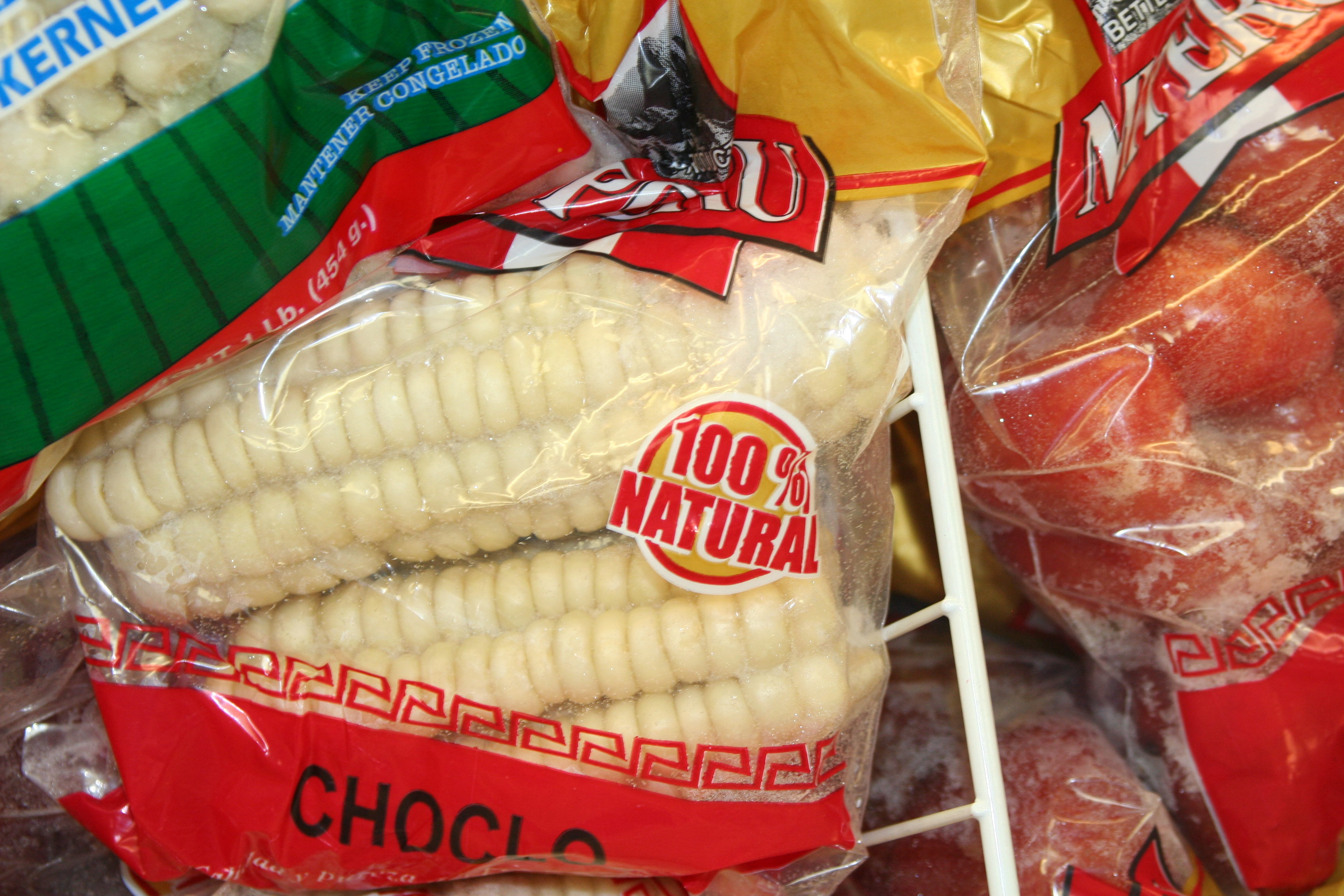 Frozen Peruvian choclo sold at a market in Los Angeles in 2009